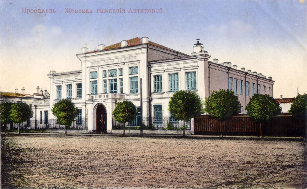 Gymnasium of P. Antipova. In 1918 the university was placed here. Postcard. 1916.